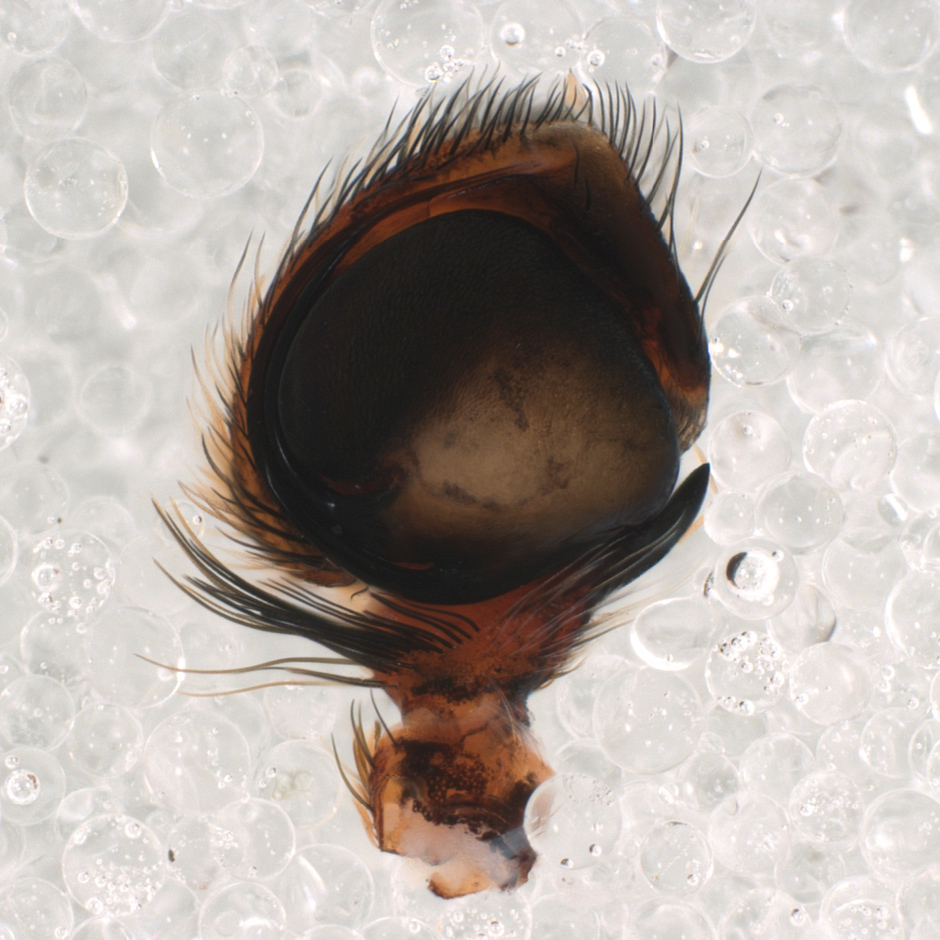 Pedipalp of Habronattus mexicanus jumping spider from Jamaica